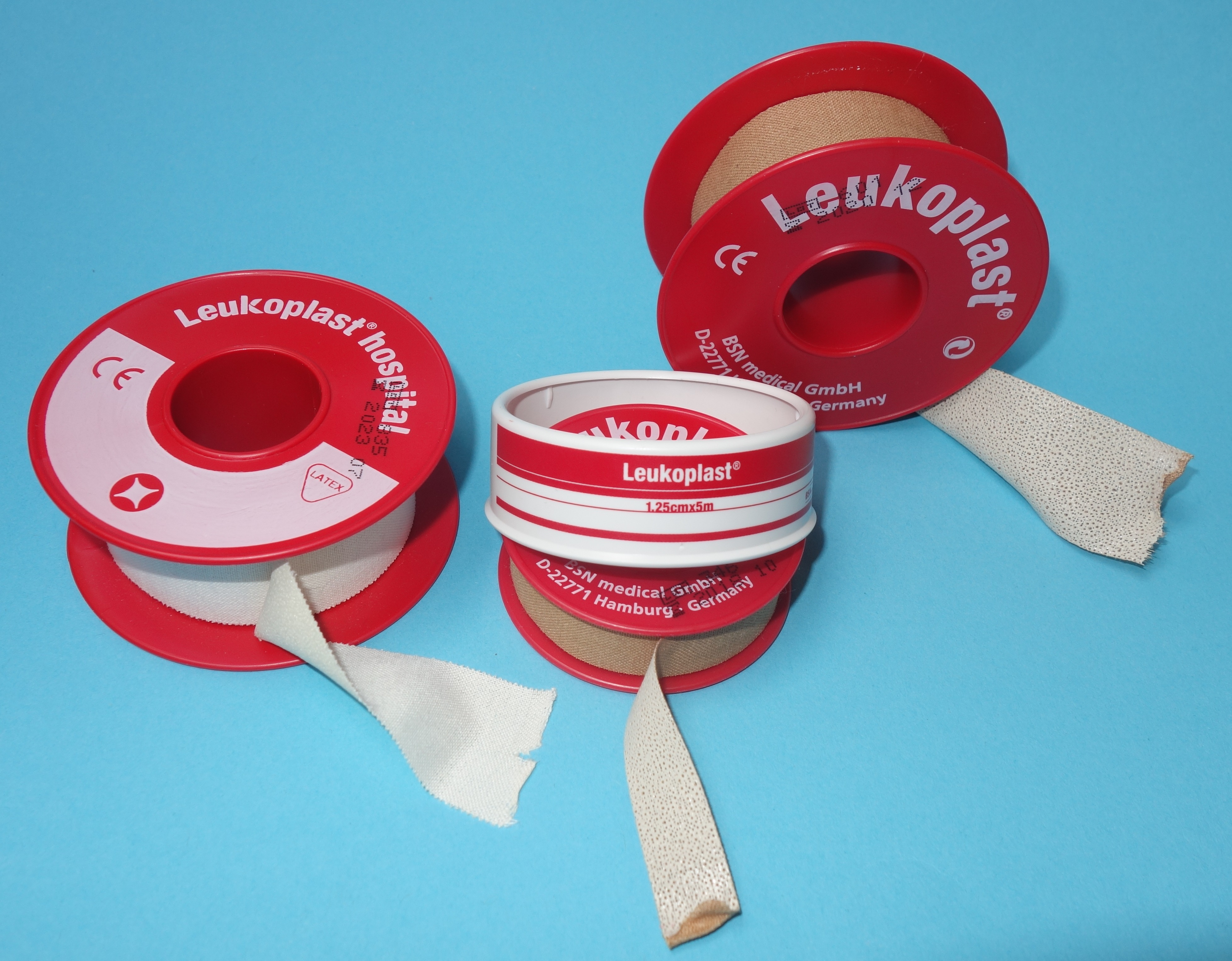 Bandages to apply wound dressings